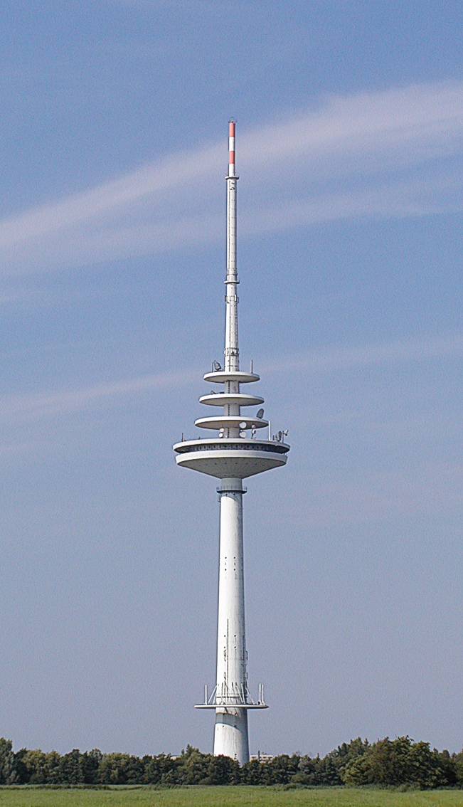 Friedrich Clemens Gerke tower in 2004